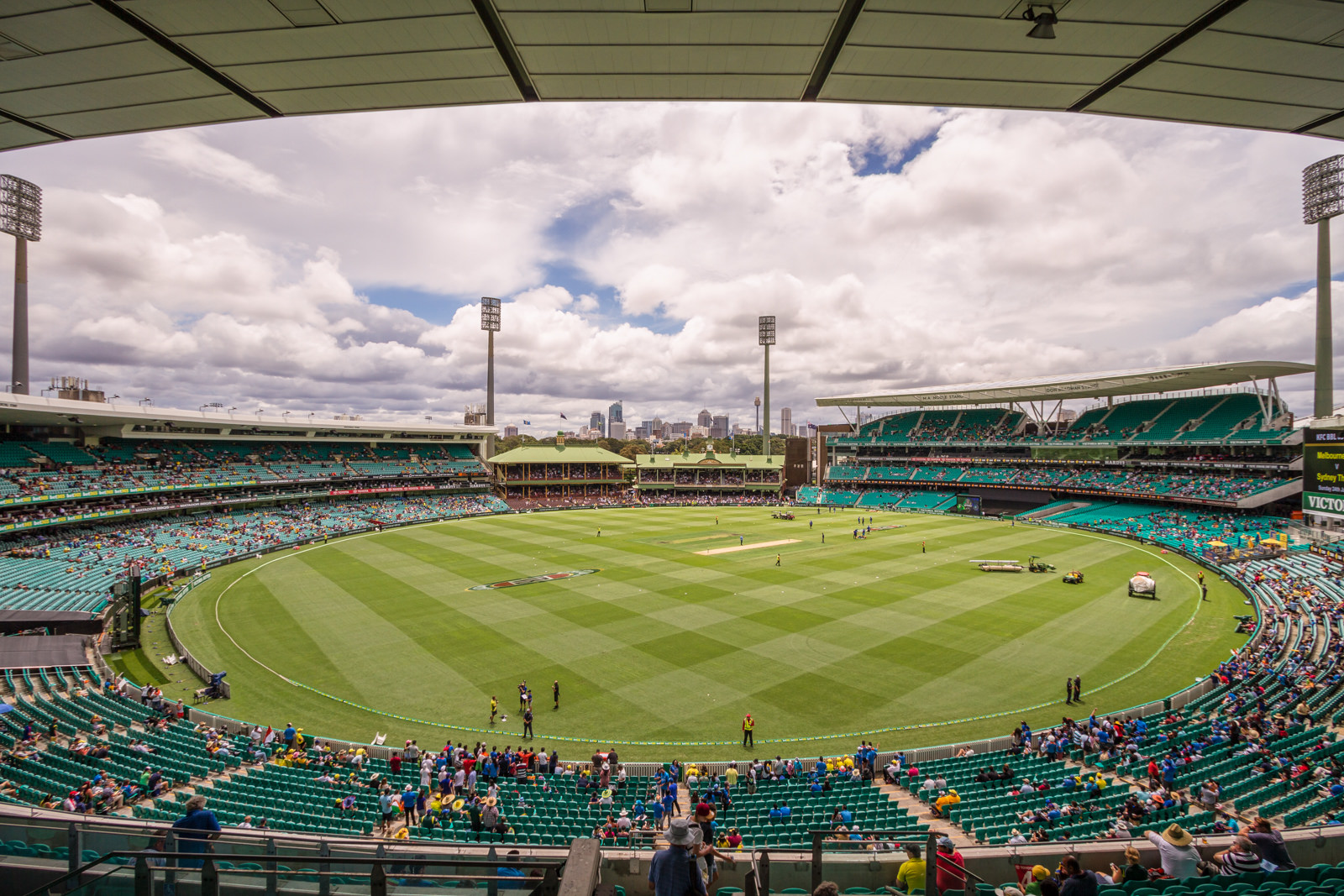 This is the Sydney Cricket Ground just before the start of the fifth ODI between Australia and India.